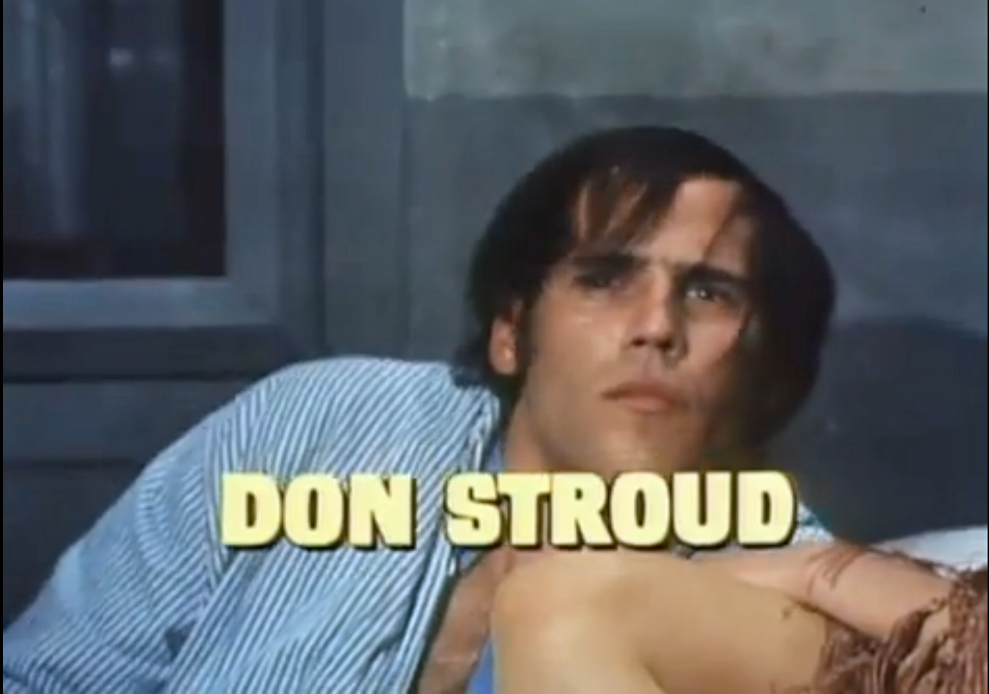 Don Stroud in trailer for "Coogan's Bluff" (1968)